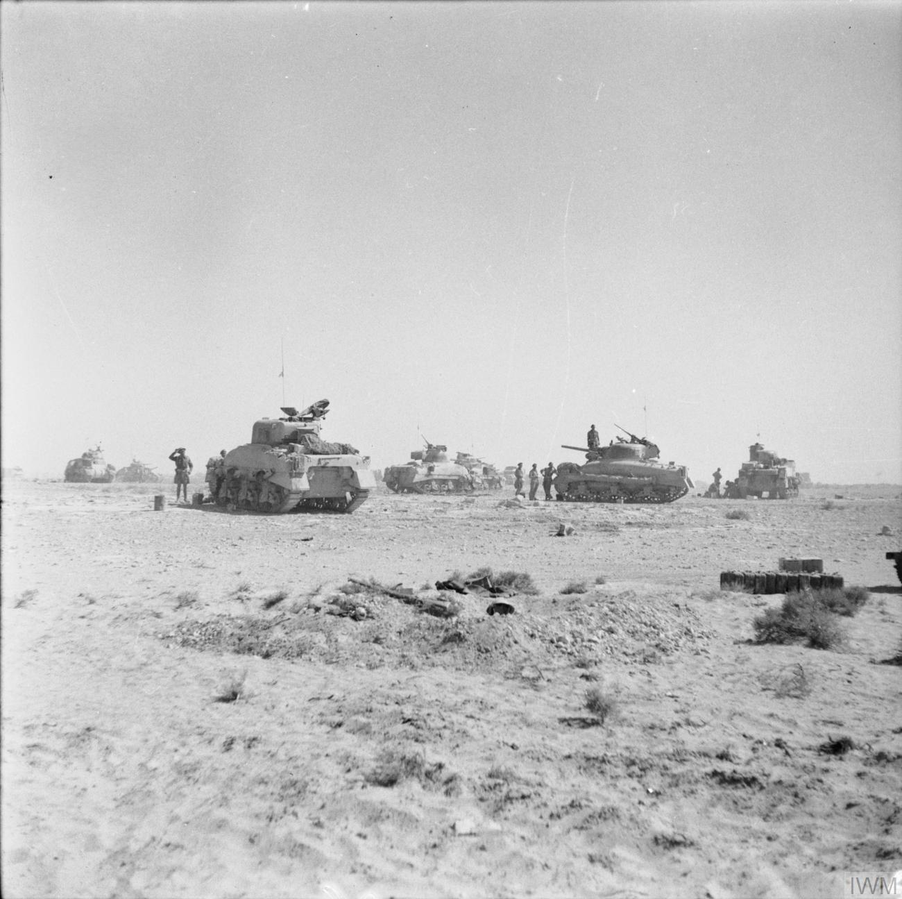 The British Army in North Africa 1942 Sherman tanks of 8th Armoured Brigade waiting just behind the forward positions near El Alamein before being called to join the battle, 27 October 1942.